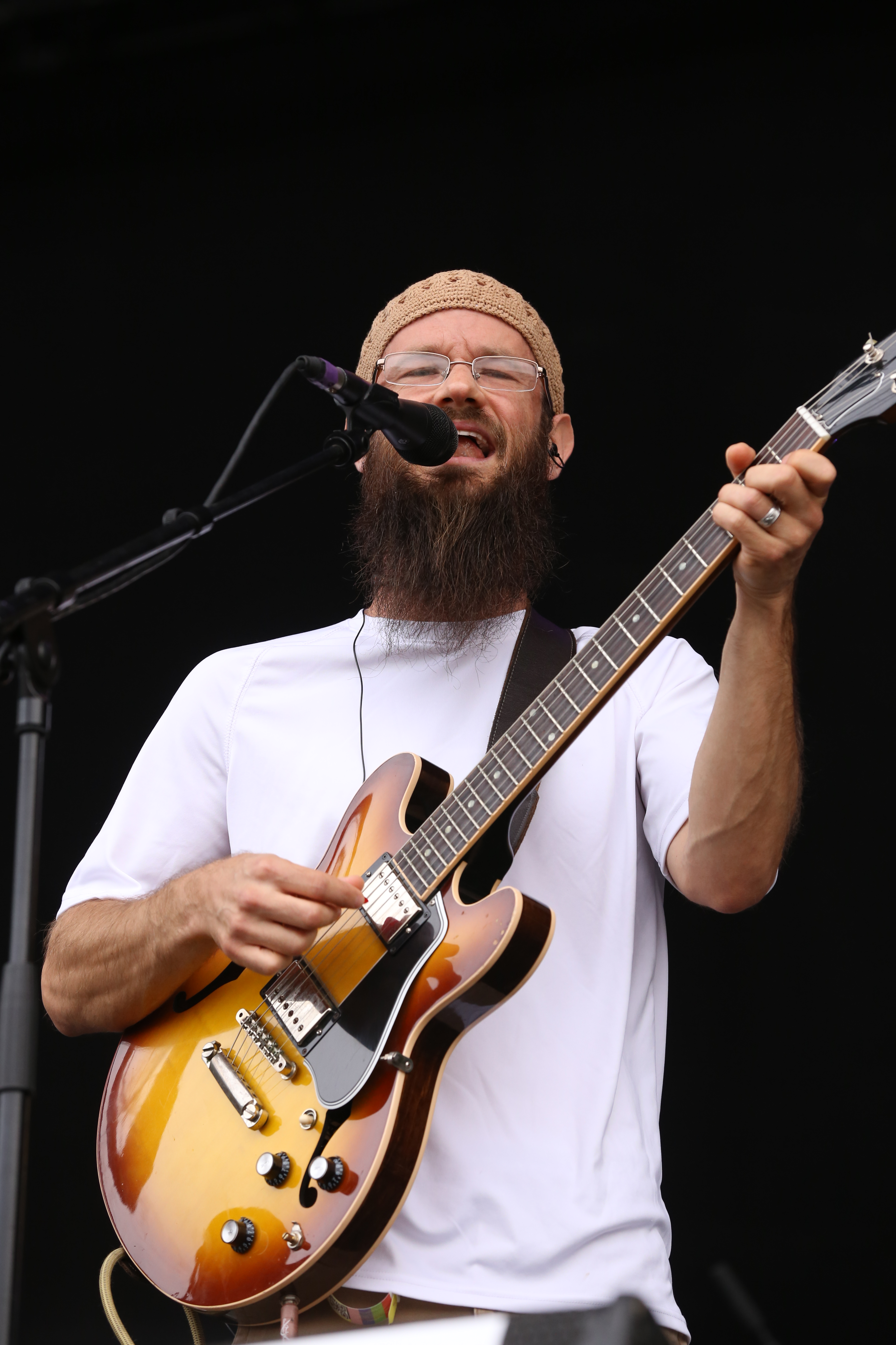 Groundation at Chiemsee Reggae Summer Festival 2013